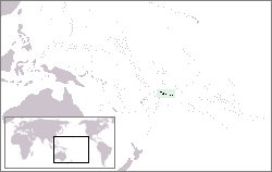 Location of Samoa Islands in the Pacific Ocean